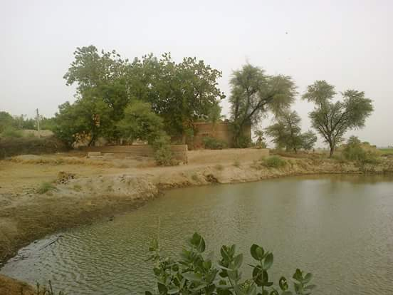 Sharifani View